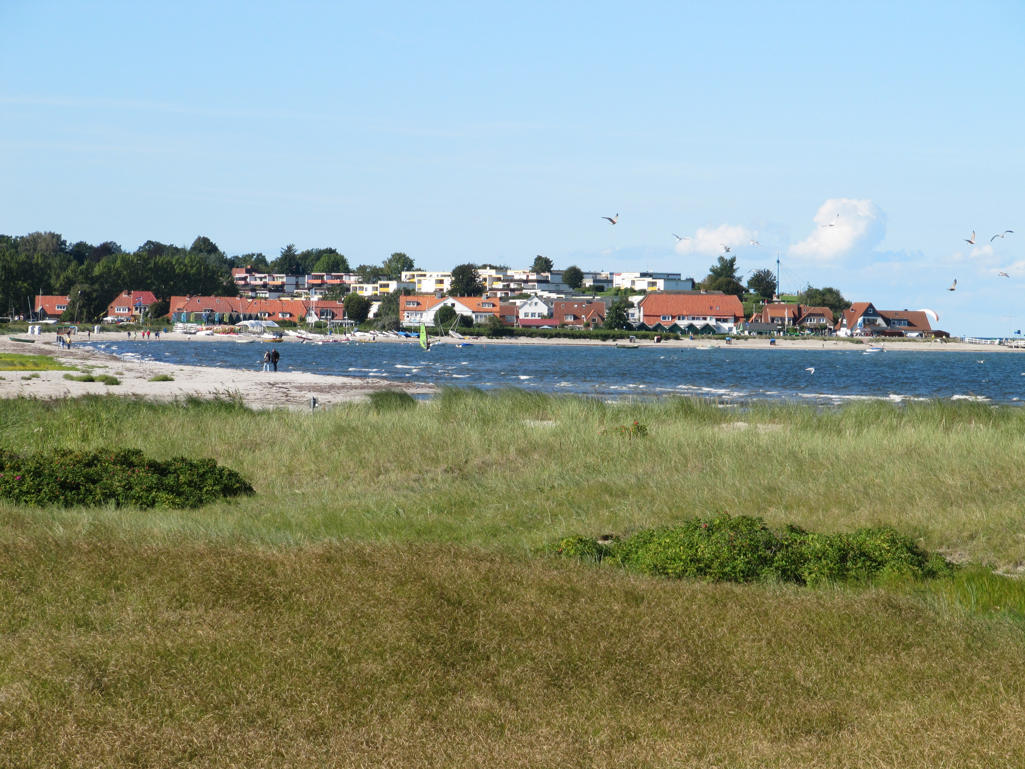 The Baltic seaside health spa of Hohwacht, Schleswig-Holstein, Germany. Viewed from the beach near the nature reserve to the southeast.